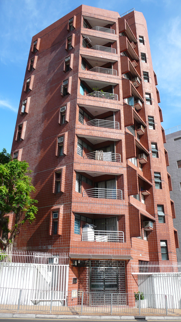 Pui Ying Secondary School Dormitory